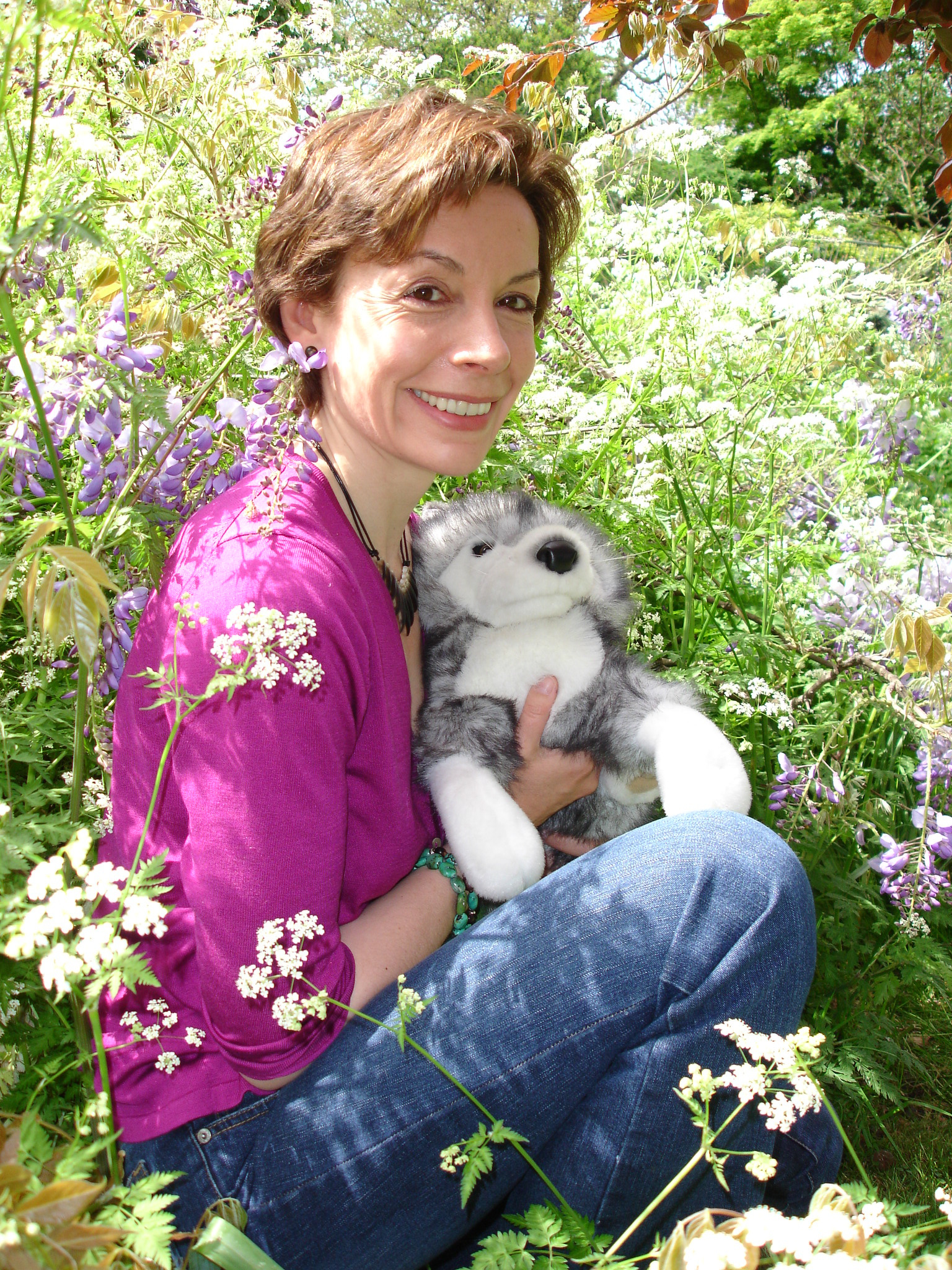 Michelle Paver, author of the bestselling “Wolf Brother” series of books